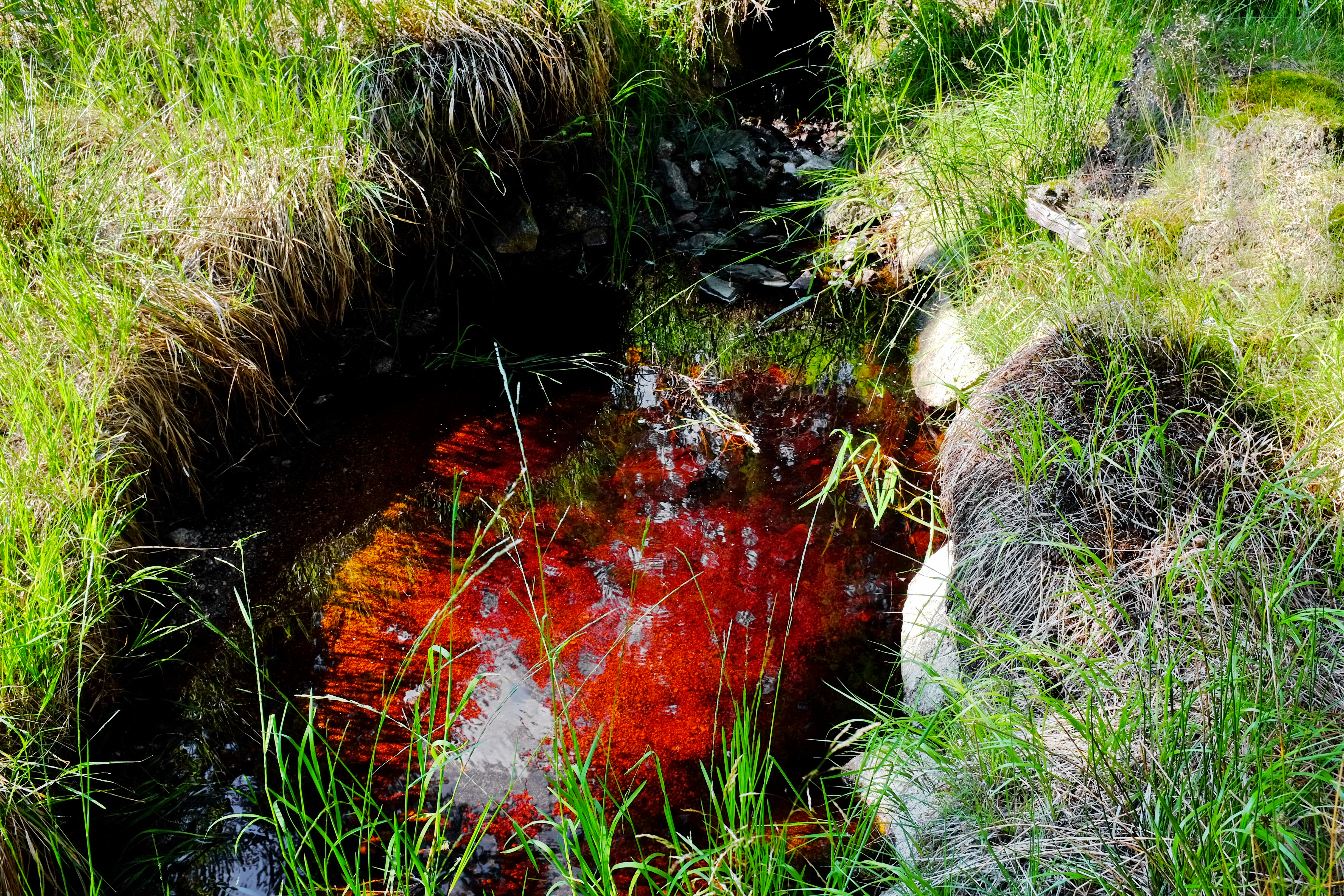 Nature reserve Oceán, Ore Mountains in Karlovy Vary District, Czech Republic